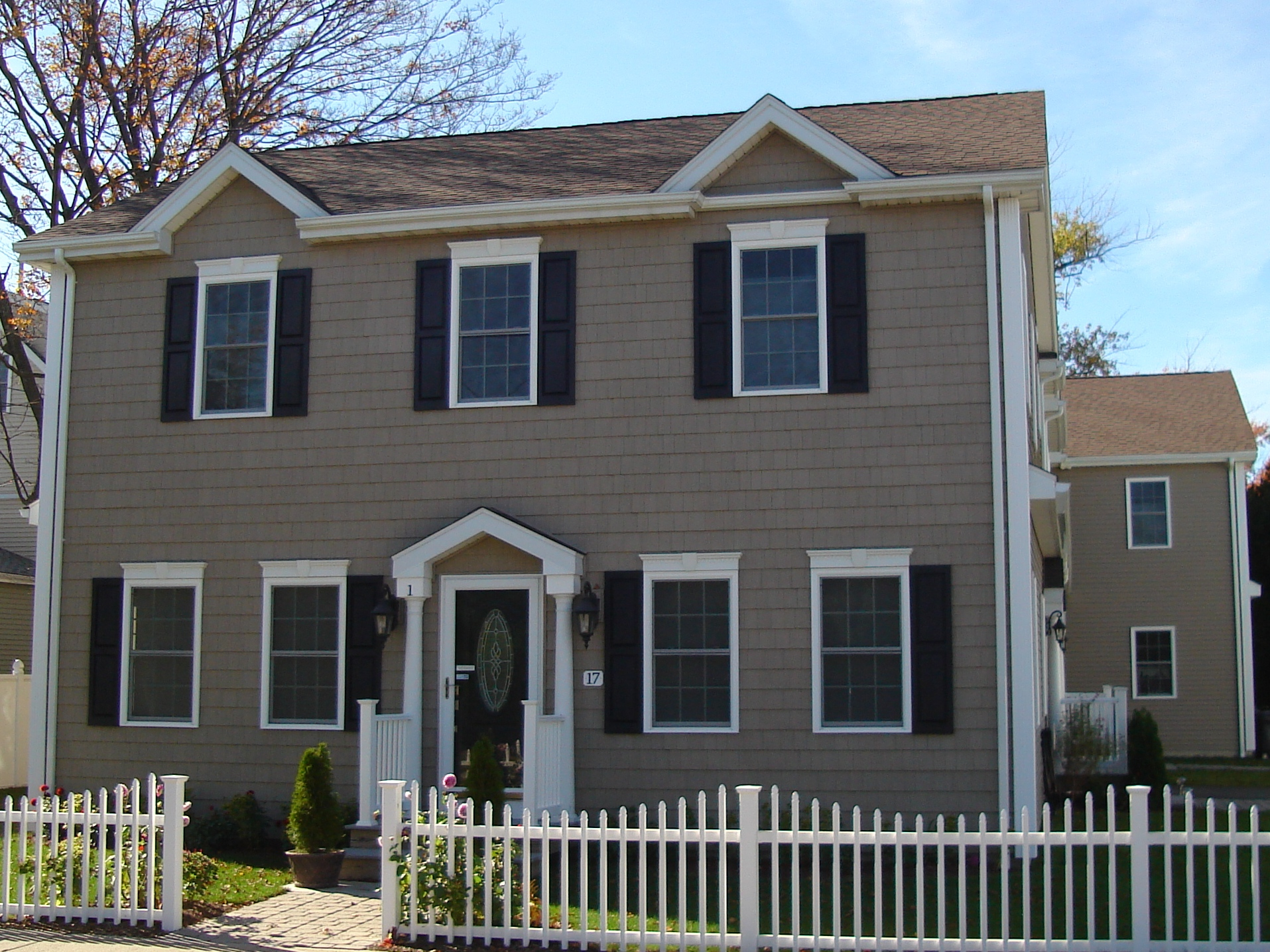 Edwin W. Marsh House in Quincy, Massachusetts, built in 1851 and added to the National Register of Historic Places in 1989. External link: (note: house has undergone significant modification since listing)